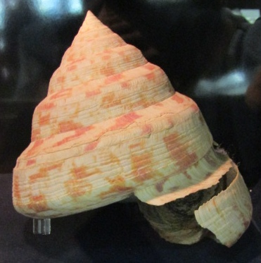 Entemnotrochus adansonianus in Endo Shell Museum who lived in Brazil